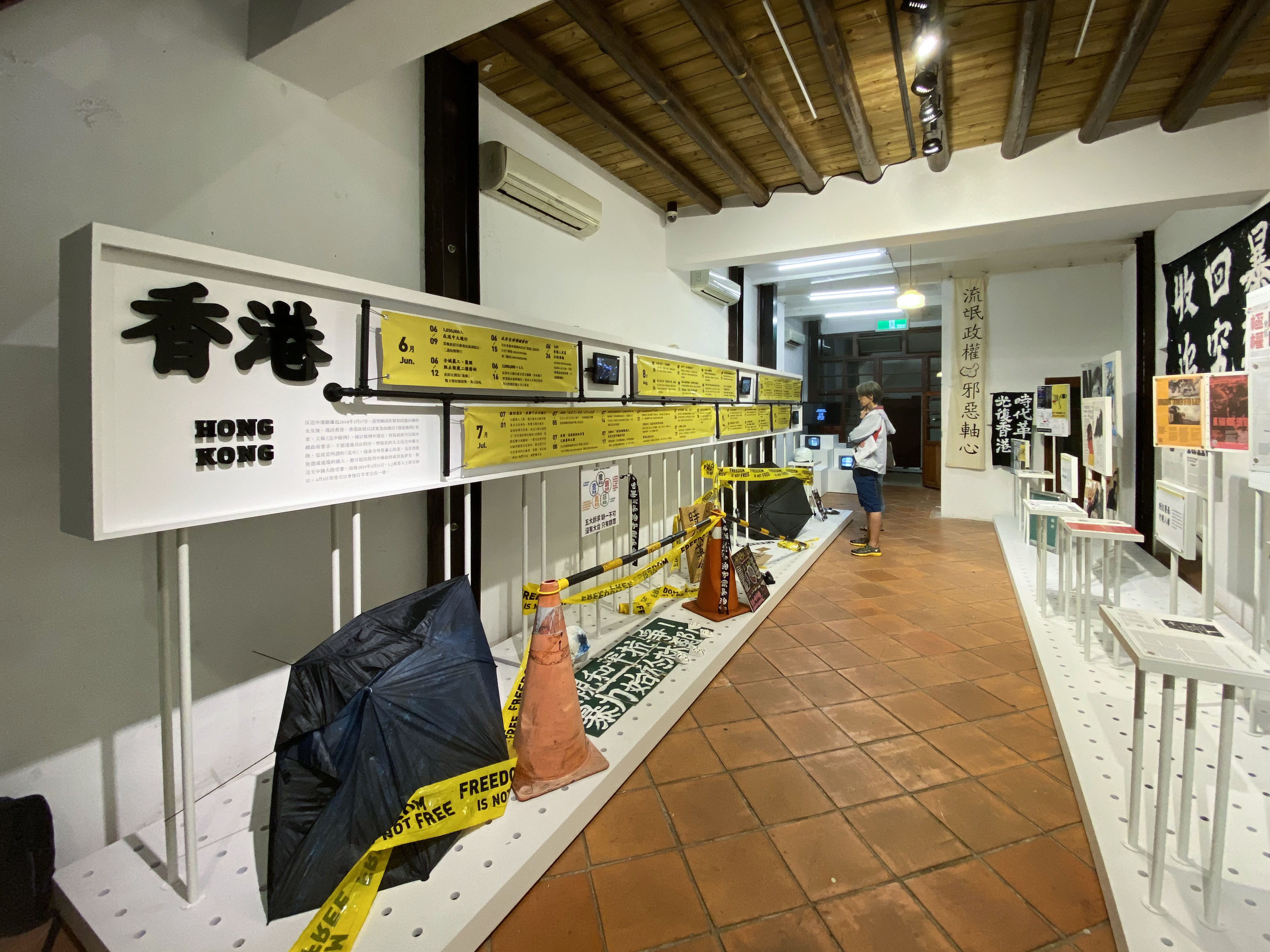 Freedom is not Free exhibit